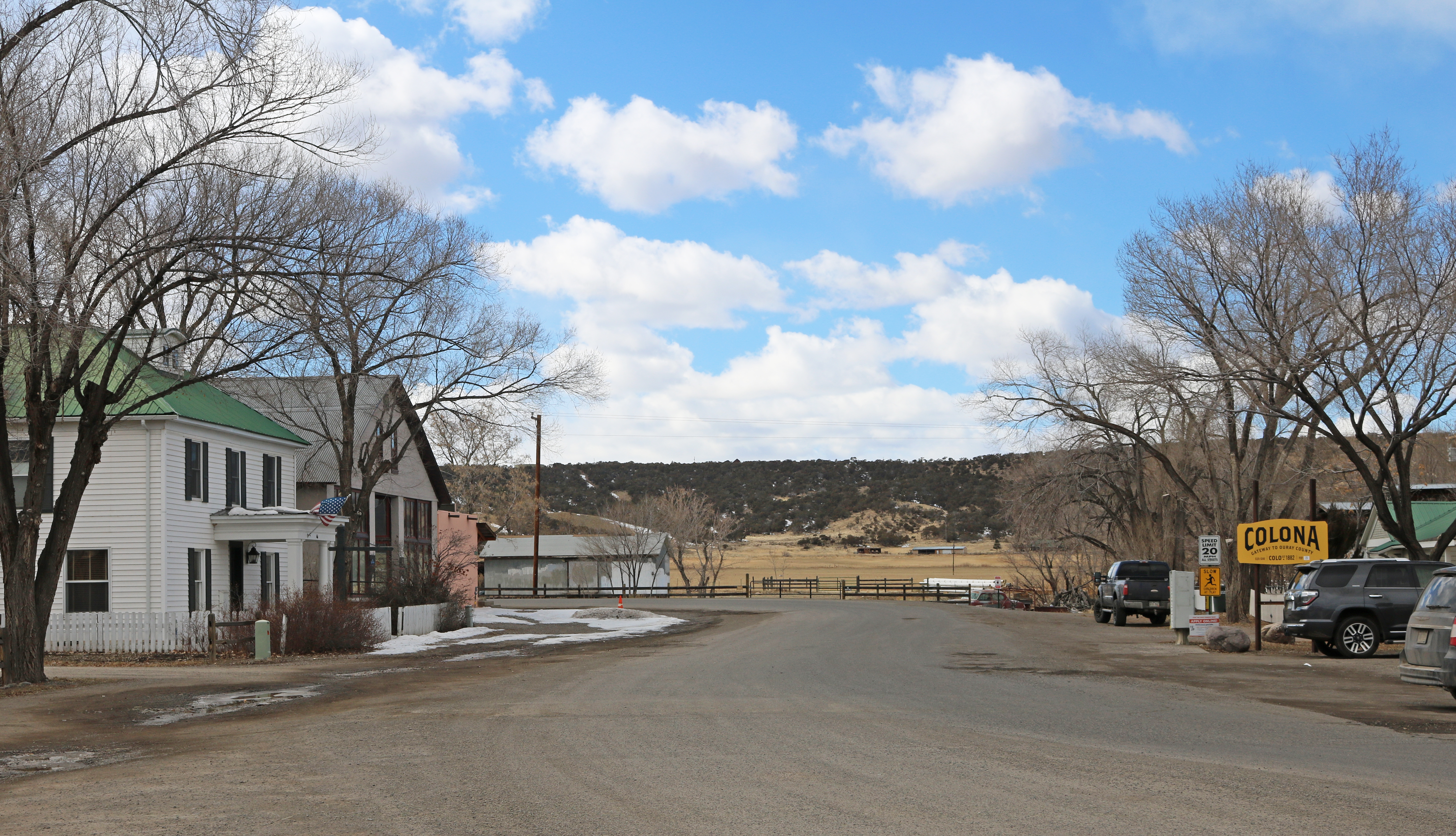 Hotchkiss Avenue in Colona, Colorado, the town's main street.